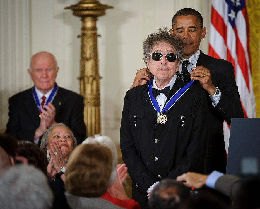 President Barack Obama presents American musician Bob Dylan with a Medal of Freedom, Tuesday, May 29, 2012, during a ceremony at the White House in Washington as Sen. John Glenn and novelist Toni Morrison look on. (NASA/Bill Ingalls)